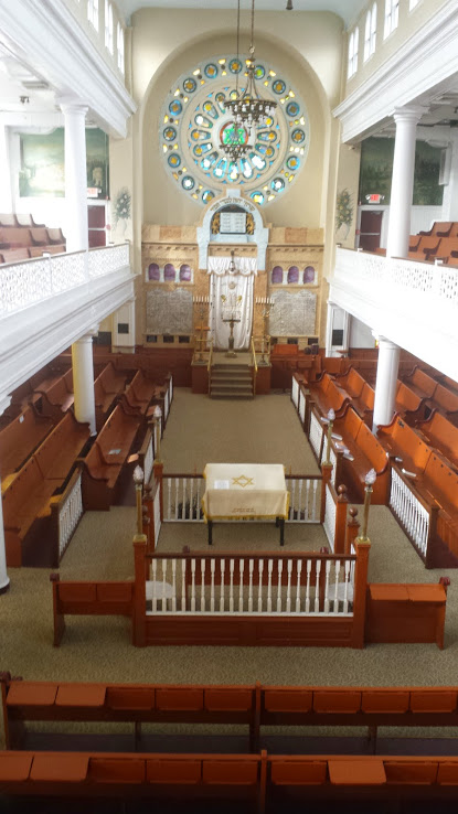 Interior of Congregation B'nai Abraham, 527 Lombard Street, Philadelphia on March 11, 2015